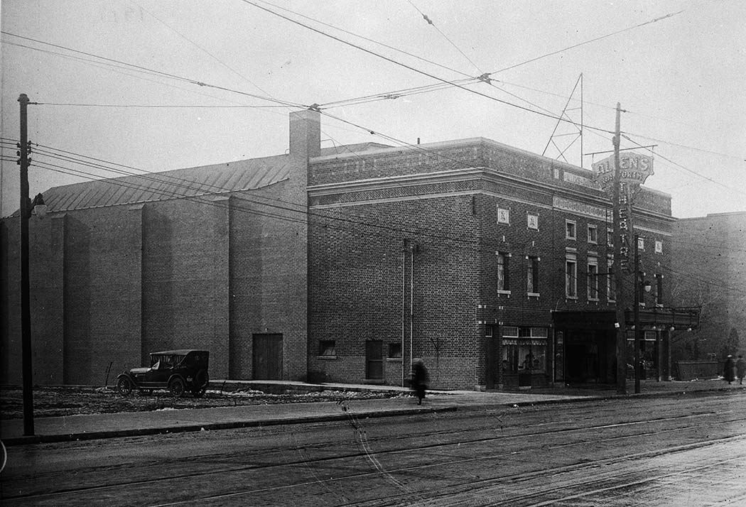 Allen's Danforth Theatre, Danforth Avenue, Toronto, Canada. The theatre later went by the names the Century, the Titania and the Music Hall.